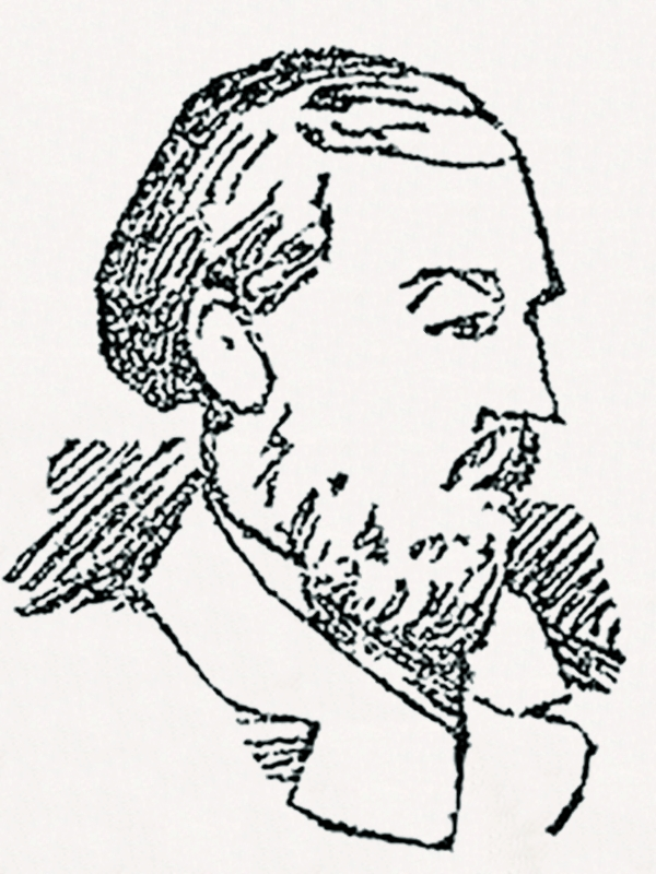 Newspaper sketch of William Henry Bury (1859-1889)